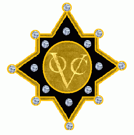 Star of the Company Maleisian: Bintang Kompani of Soerakarta